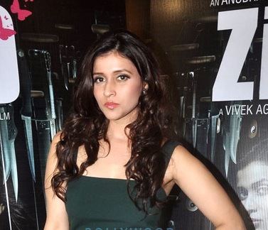 this is the picture of Priyanka Chopra's cousin, Mannara Chopra aka Barbie Handa